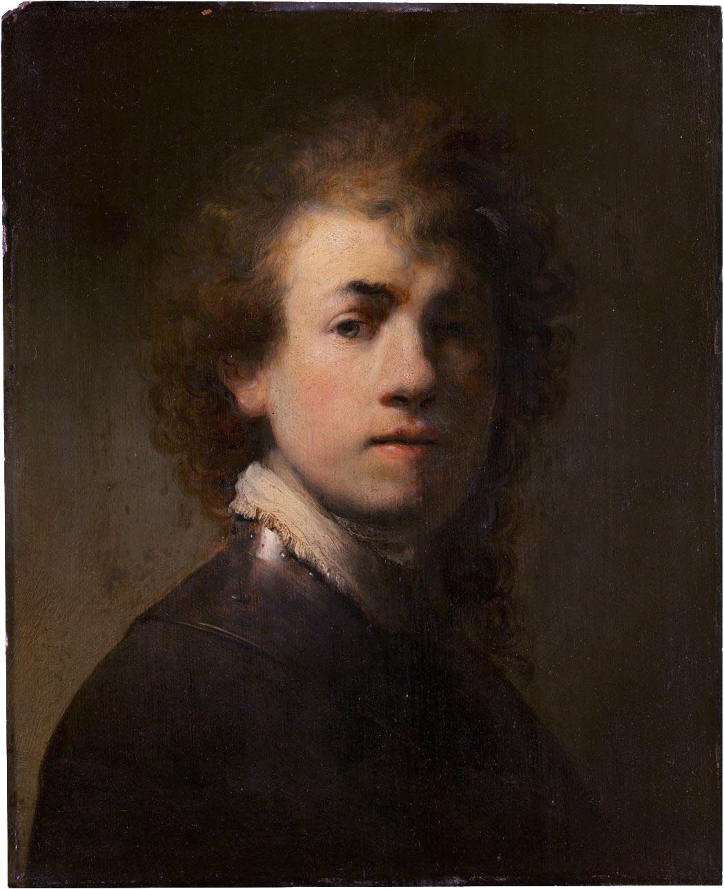 Bust of Rembrandt facing right, wearing a Gorget underneath a white colar. He is looking at the viewer.